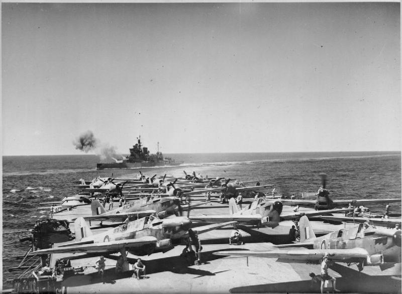 The Royal Navy during the Second World War As seen from the flight deck of HMS ILLUSTRIOUS, the battleship HMS VALIANT has a practice shoot for its 15 inch guns during exercises. The planes in the foreground are Fairey Fulmars Mk.II of 806 Squadron, Fleet Air Arm.